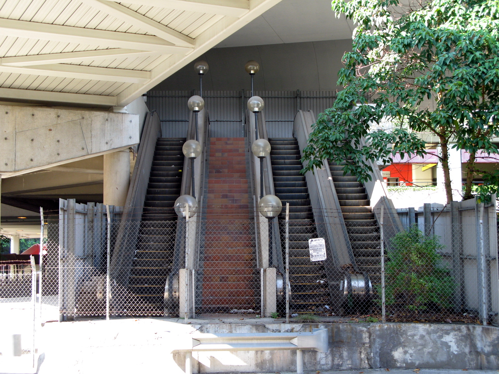 Tsuen Wan Transport Complex Abanded Escalator